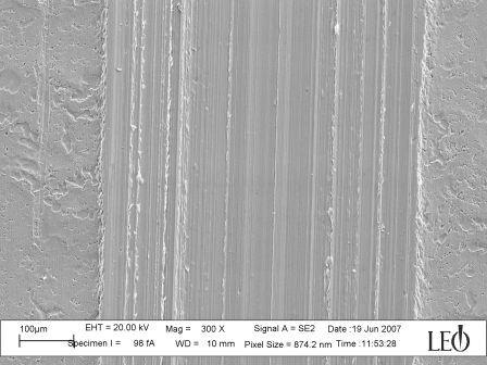 A picture on sheet damage created by the galling phenomenon using a SOFS (TNO) test equipment. The characteristic pattern illustrate continues lines or stripes indicating a breakthrough of the oxide surface layer. Abrasive wear is distinguished by damage below the sheets surface layer and consequently is the pattern discussed as an abrasive pattern due to these formed continues stripes.